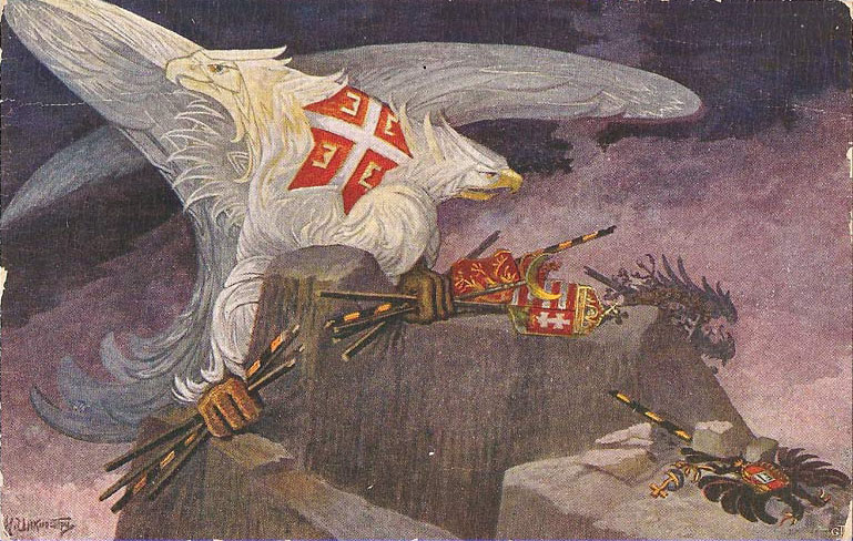 Scanned postcard in honour of the 1922 Sokol rally in Ljubljana, published by D. O. Zagreb; depicting a painting by Dragutin Inkiostri Medenjak, Bijeli Orao ("White Eagle").